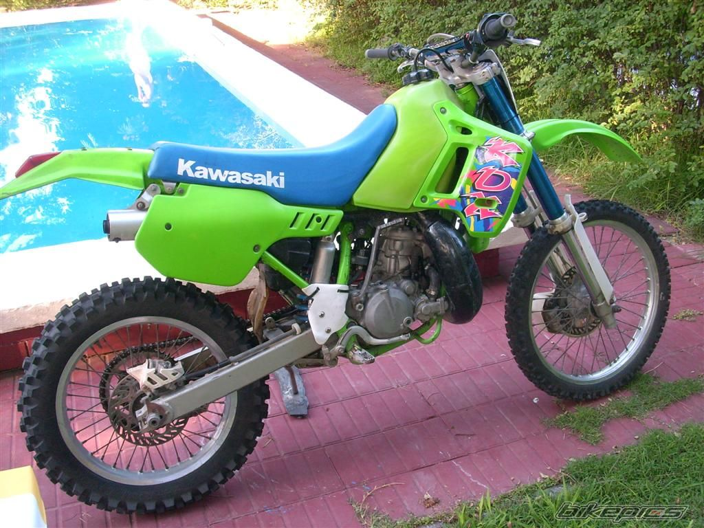 Kawasaki 1993 KDX200